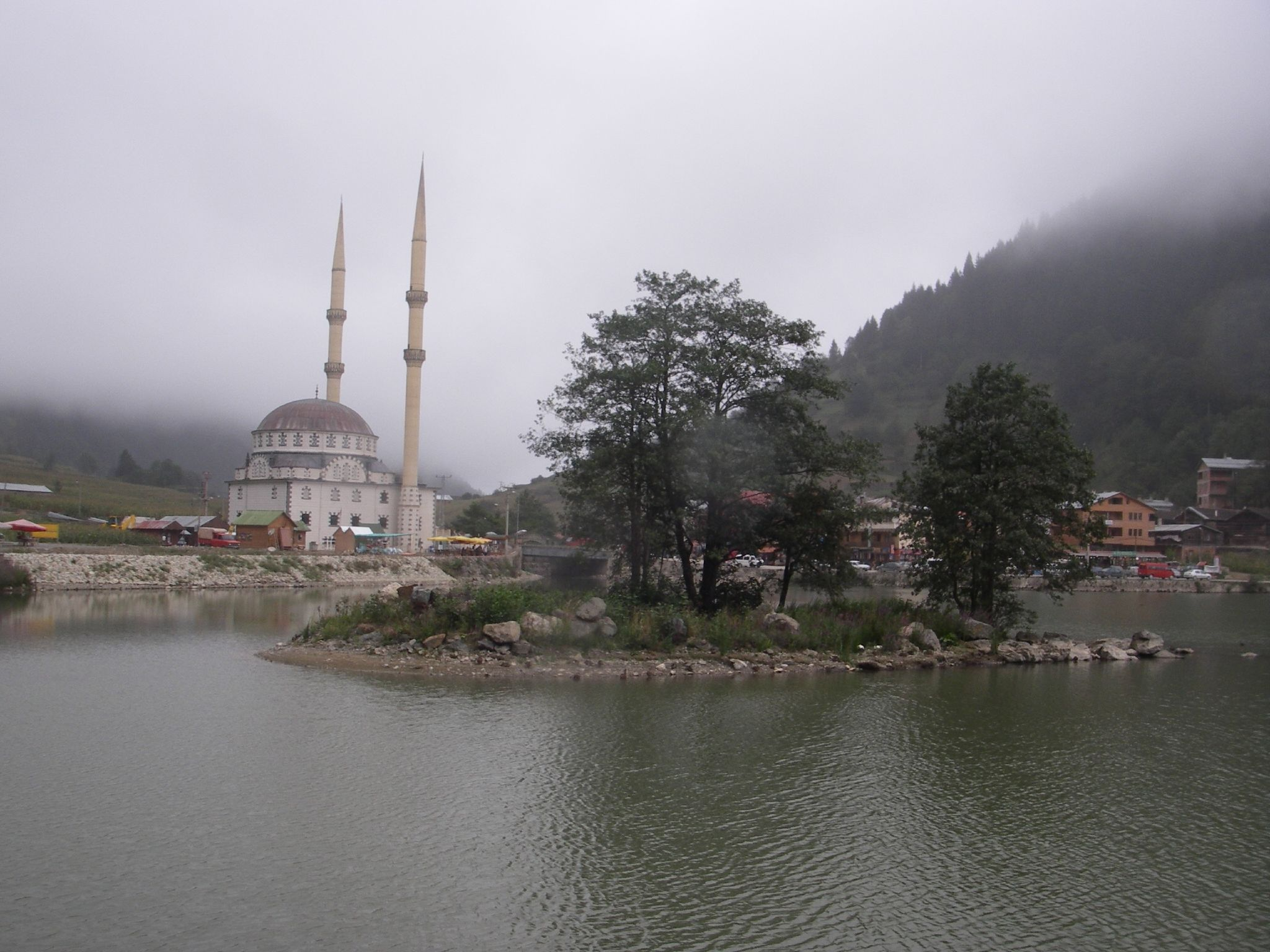 Uzungöl, a lake situated to the south of the city of Trabzon in Turkey.Uzungöl